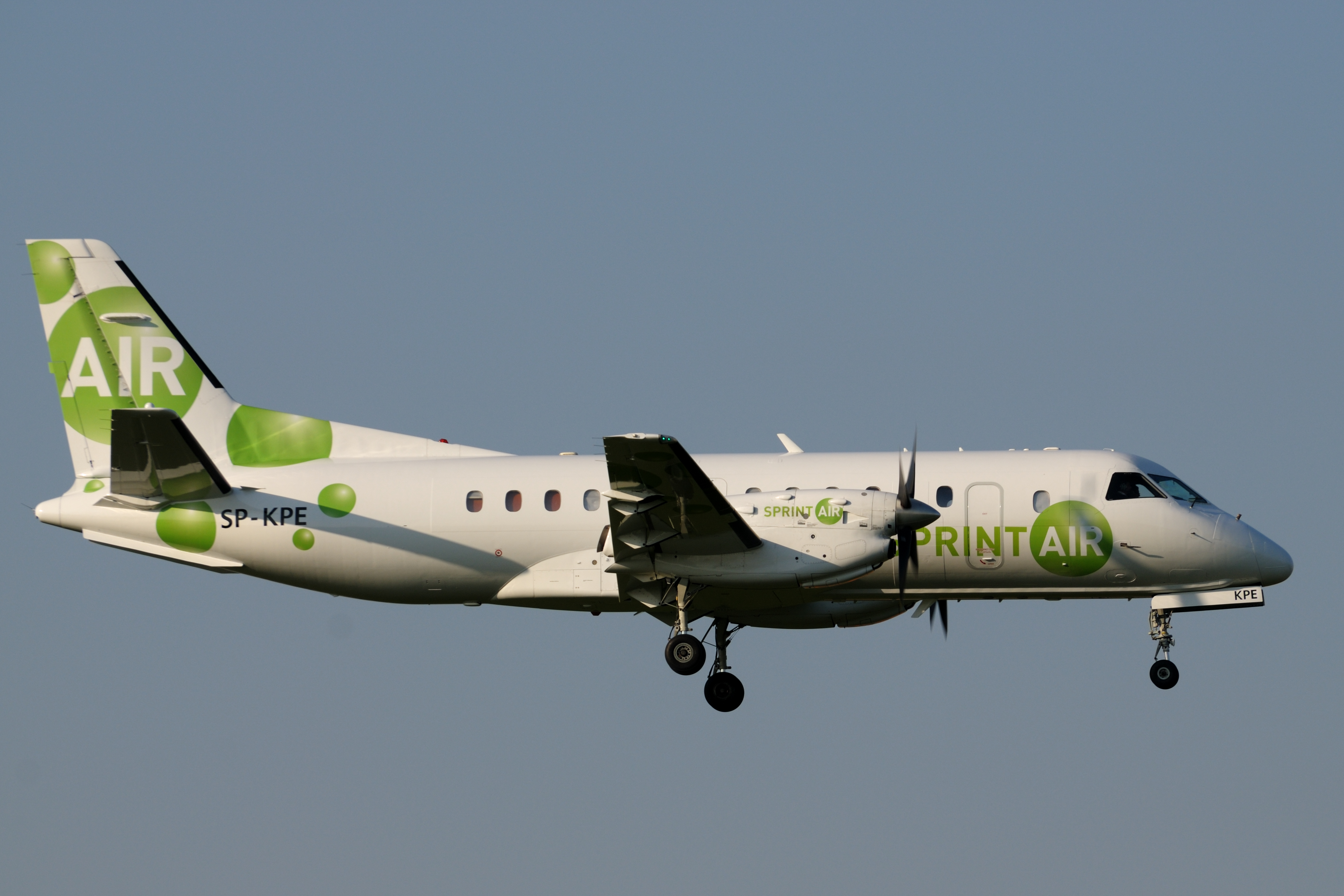 Saab 340 A SP-KPE Sprint Air